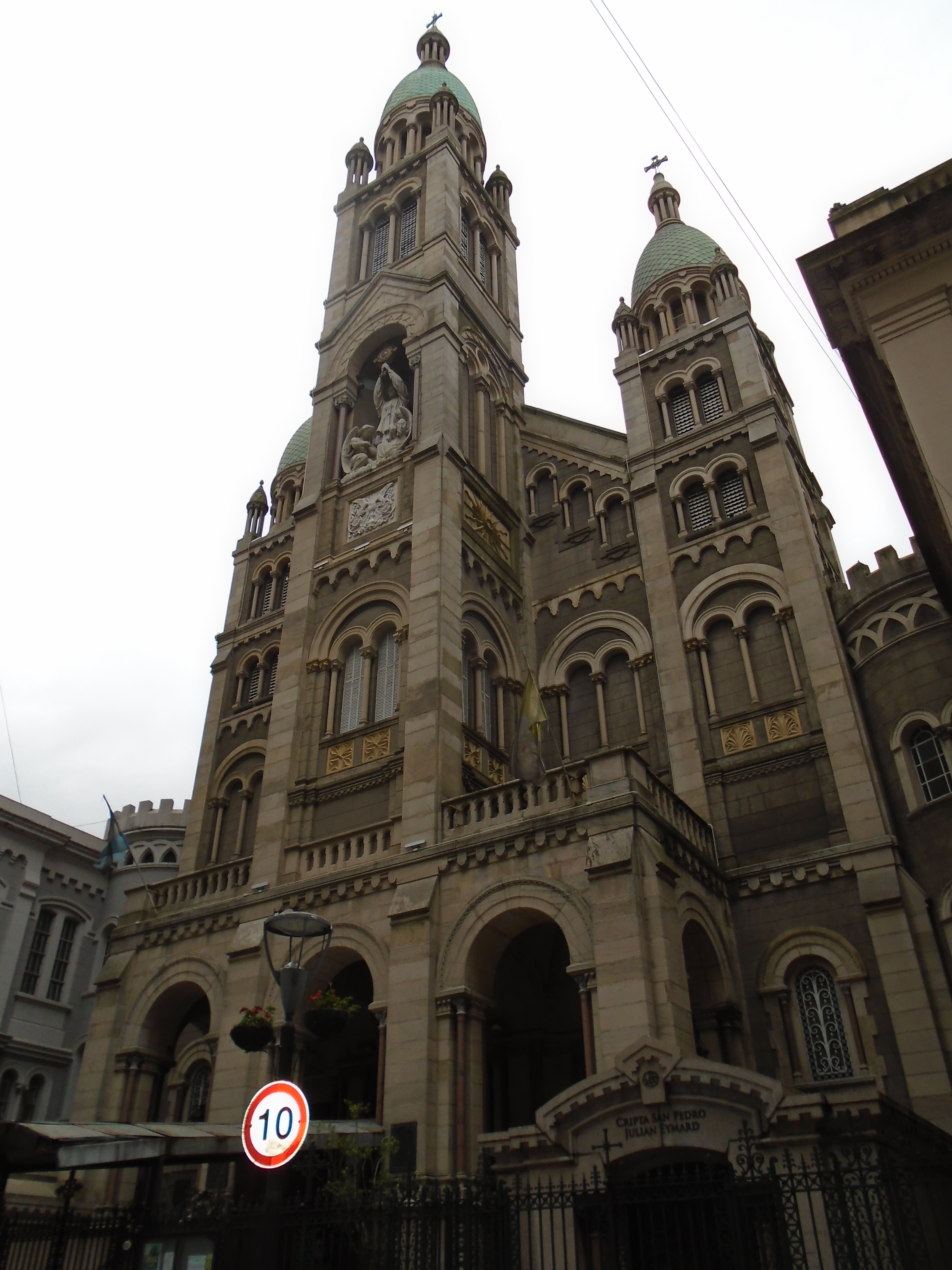 Exterior of the Basílica del Santísimo Sacramento, Buenos Aires